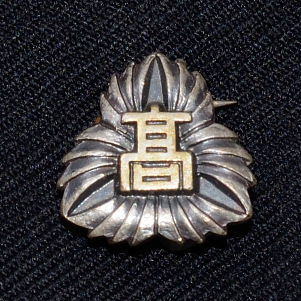 Jindai high school badge